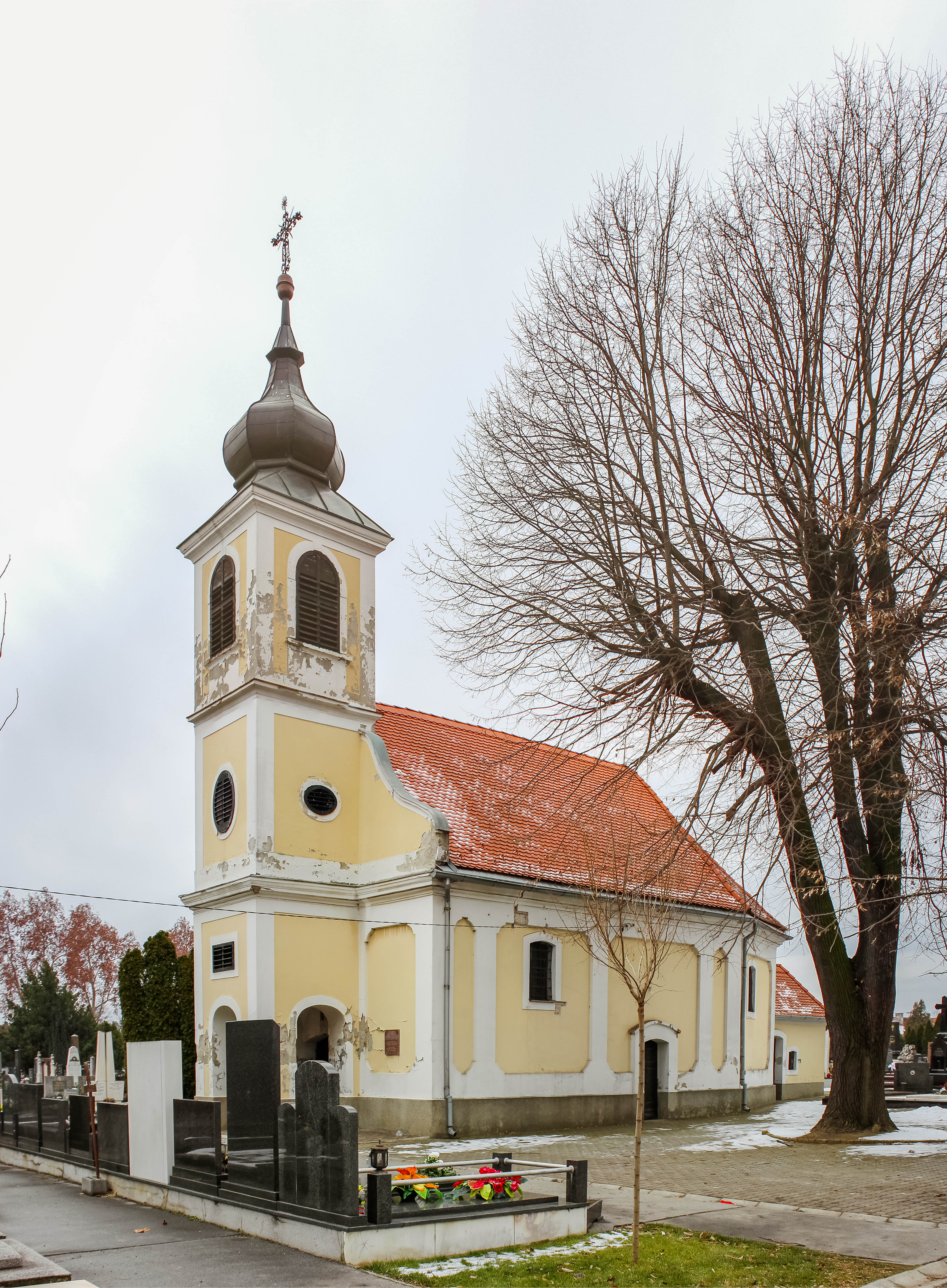 Church